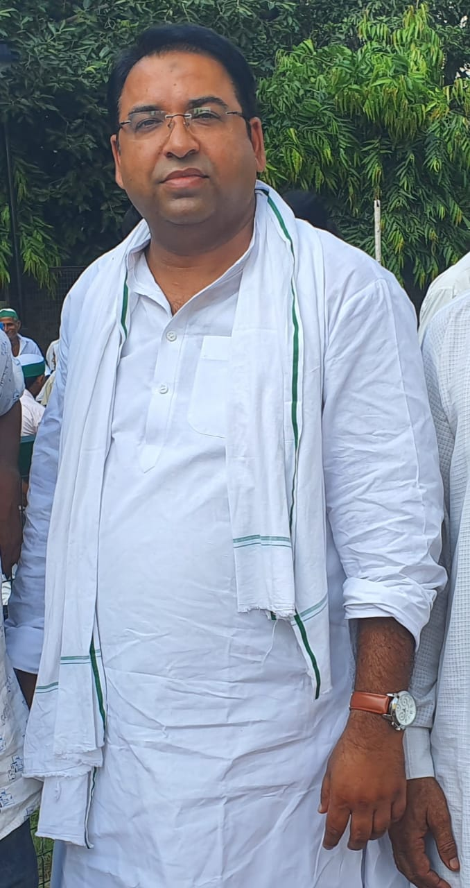 Nagar Panchayat Chairman Purkazi, Muzaffarnagar